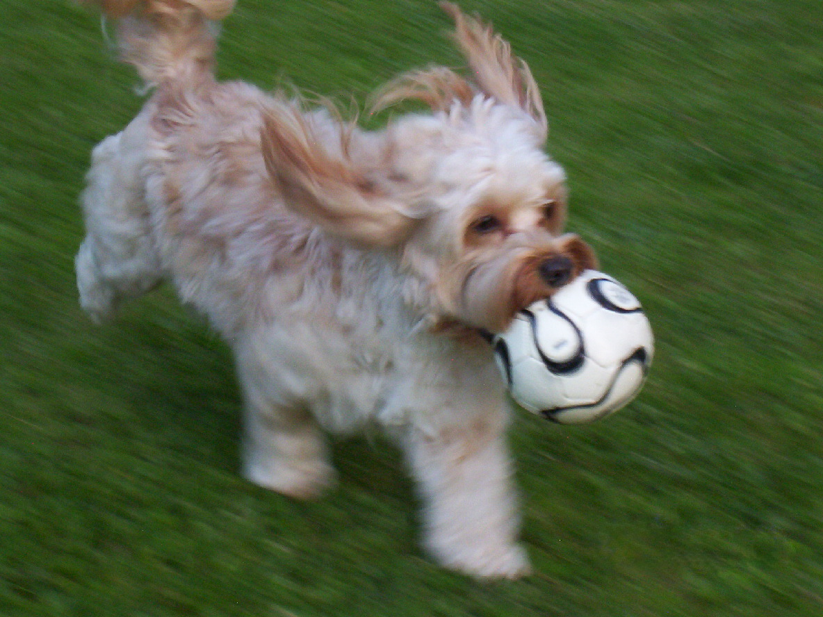 BICHON HAVANAIS DIT :WENDY ALLIAS BOUBA ALLIAS BOB